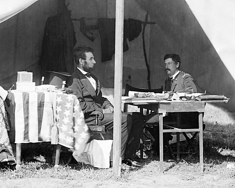 Abraham Lincoln and George B. McClellan in the general's tent at Antietam, Maryland, October 3, 1862.